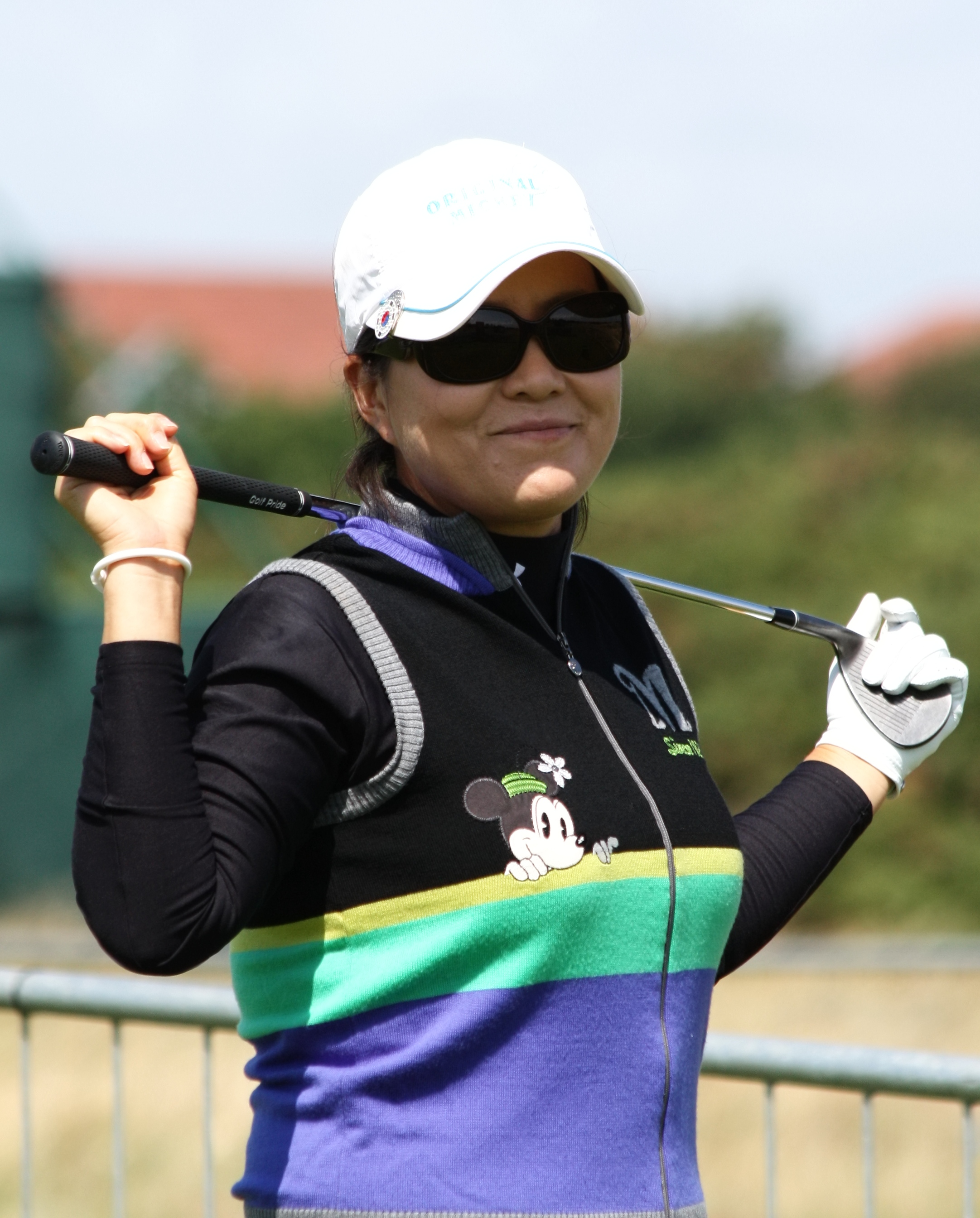 LYTHAM ST ANNES, UNITED KINGDOM - JULY 27: Il Mi Chung of South Korea on her way to the 18th tee during first practice round before 2009 Ricoh Women's British Open held at Royal Lytham & St Annes on July 27, 2009 in Lytham St Annes, England. (Photo by Wojciech Migda)